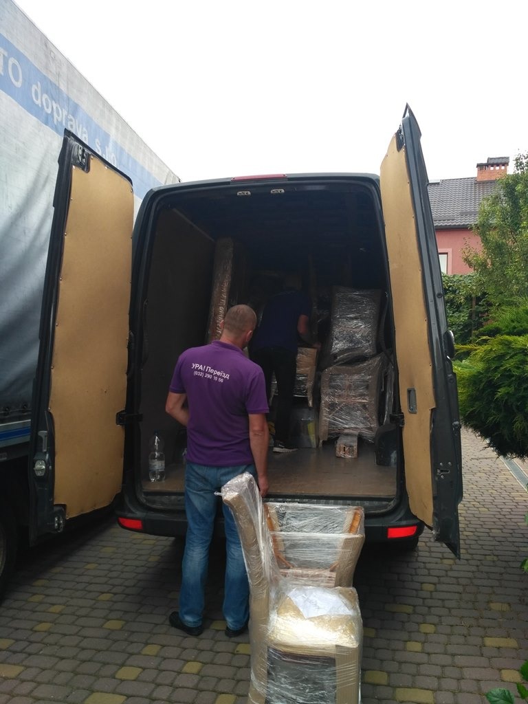 Staff of Moving company УРА! Переїзд